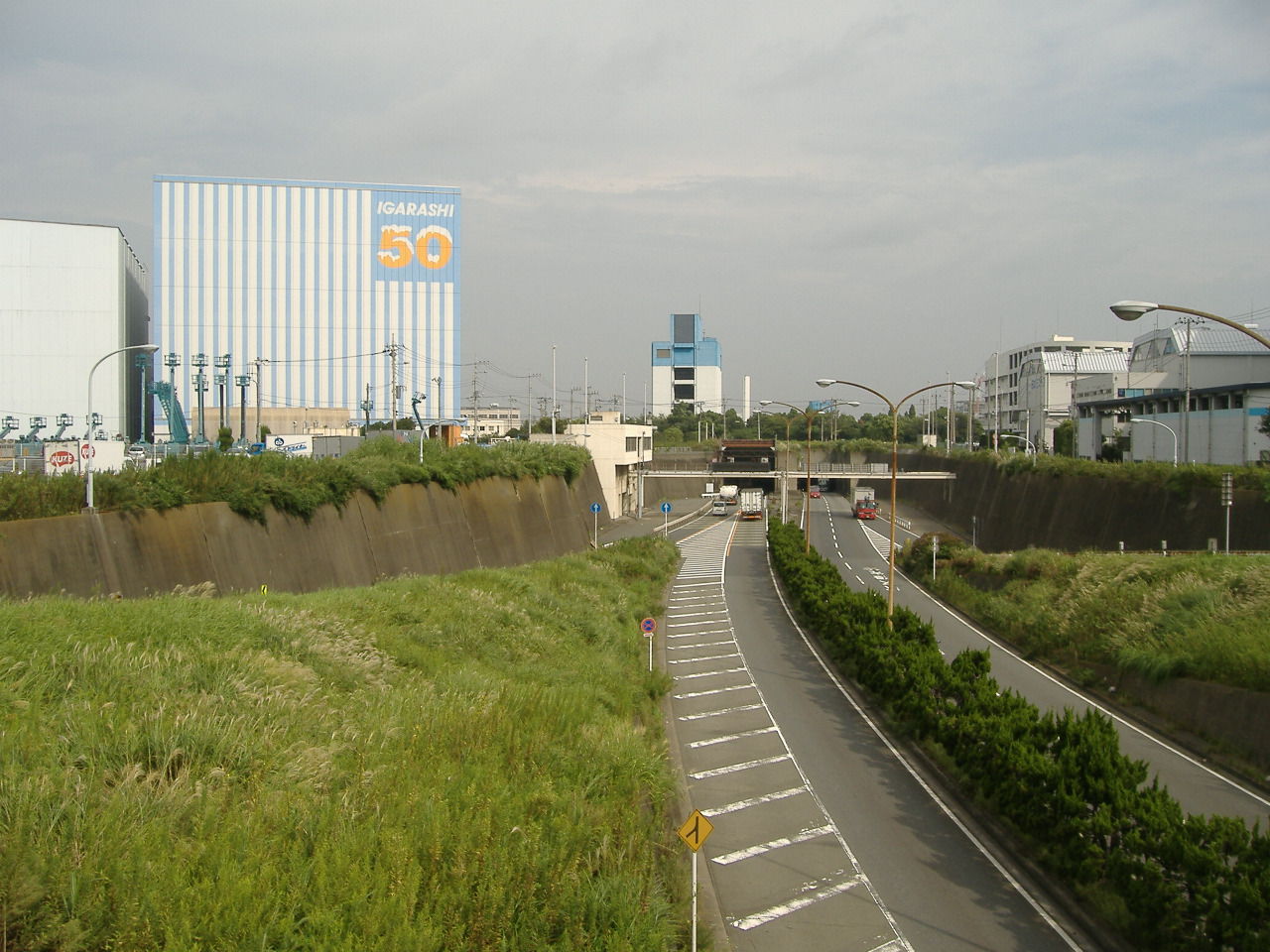 Kawasaki Port Tunnel (Kawasaki, Japan)